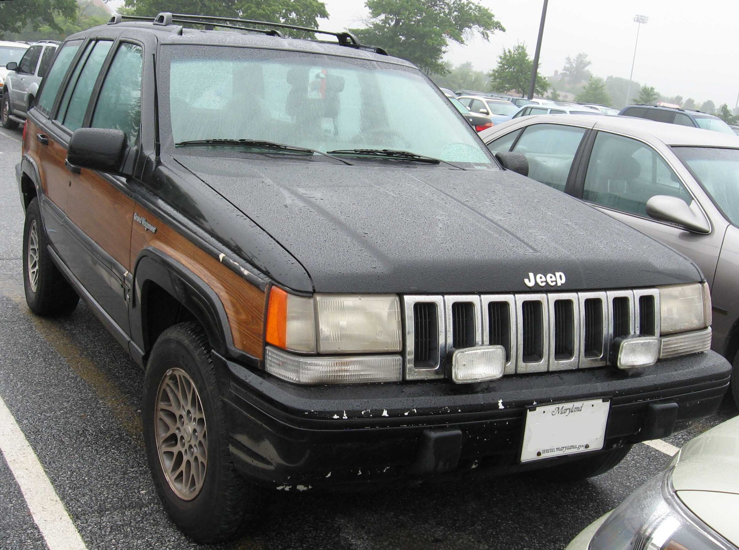 1993 Jeep Grand Wagoneer photographed in USA.